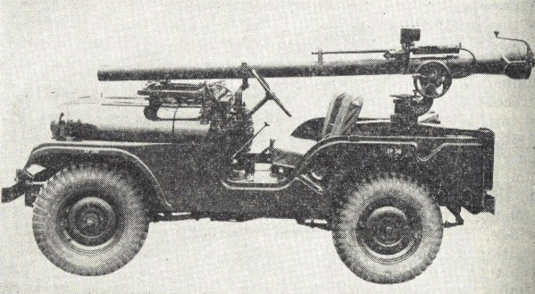 106mm recoil-less rifle, M40A1, mounted on 1/4-ton truck, M38A1